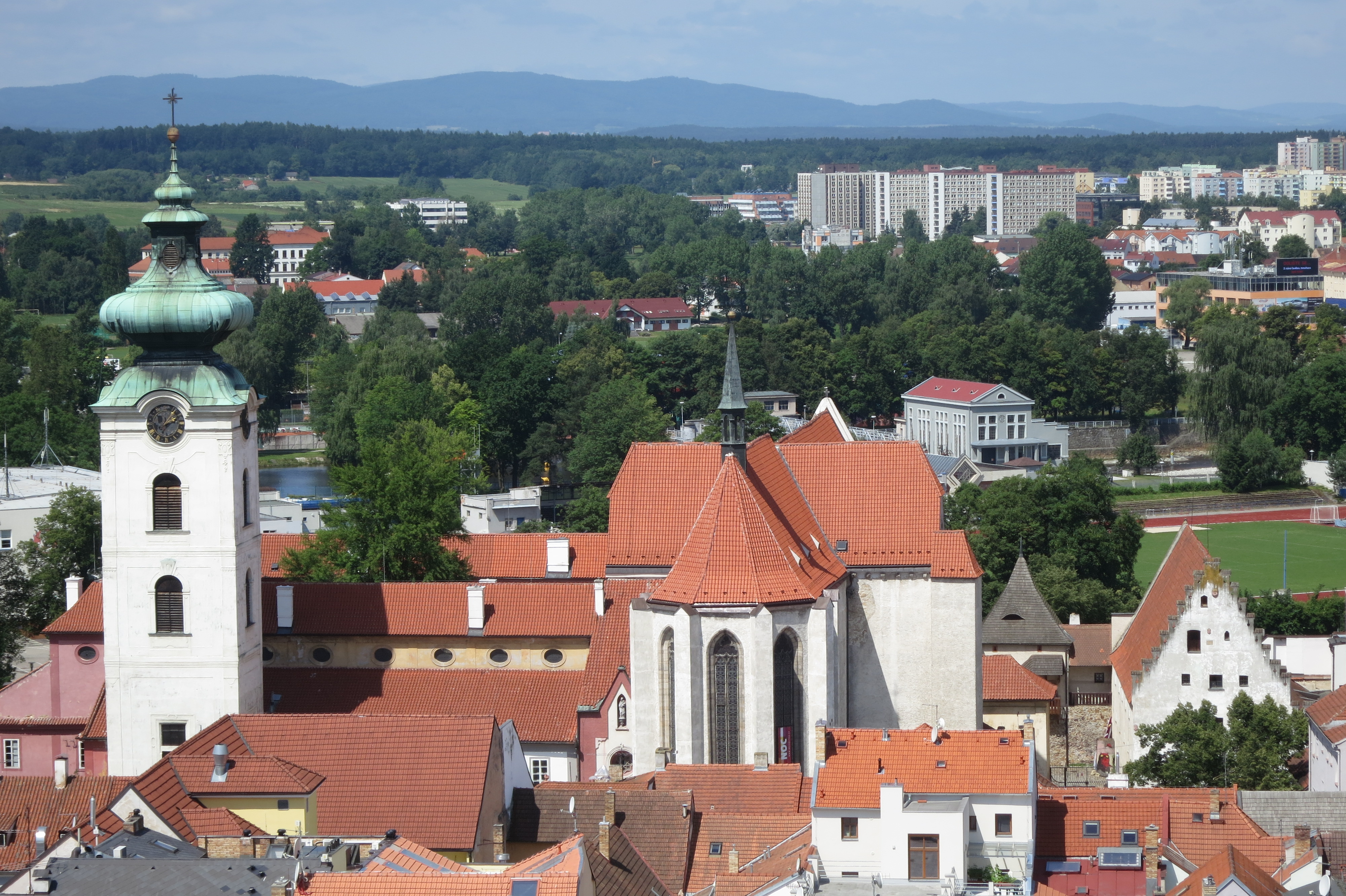 View from Black Tower of Church of Presentation of the Virgin Mary at Square of Přemysl Otakar II in České Budějovice, Czech Republic.